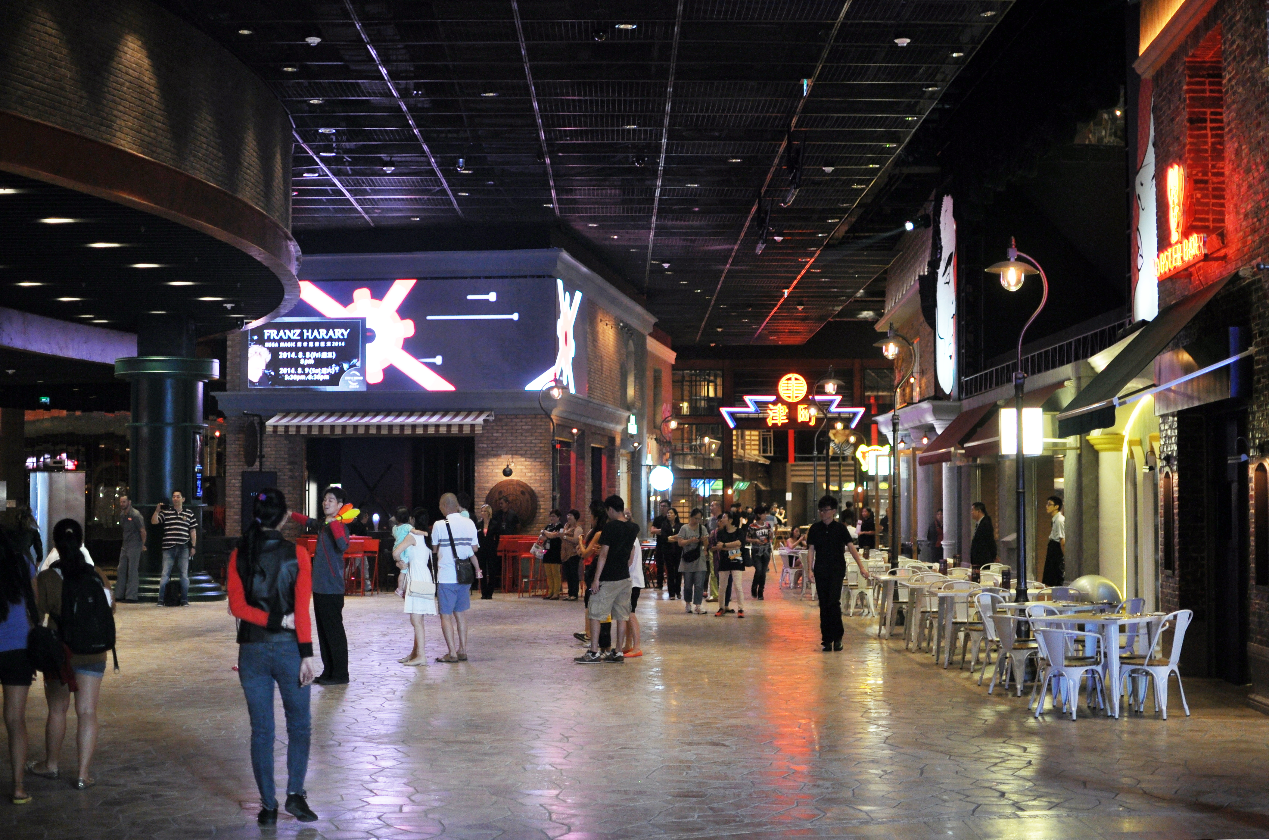 SOHO in City of Dreams Macau